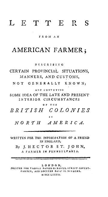 Letters from an American Farmer facsimile title page of the 'New Edition', copied from Oxford World's Classics edition.